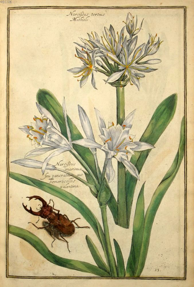 Narcissus tertius Mathioli - Narcissus marinus : Paris: Petrum Firens Date of publication : 1627 "Theatrum Florae, in quo ex toto orbe selecti mirabiles, venustiores ac praecipui flores, tanquam ab ipsius Deae sinu, proferuntur" Author : Pietro Castelli (1590-1661). Auteur du texte Publisher : apud P. Firens (Lutetiae Parisiorum)